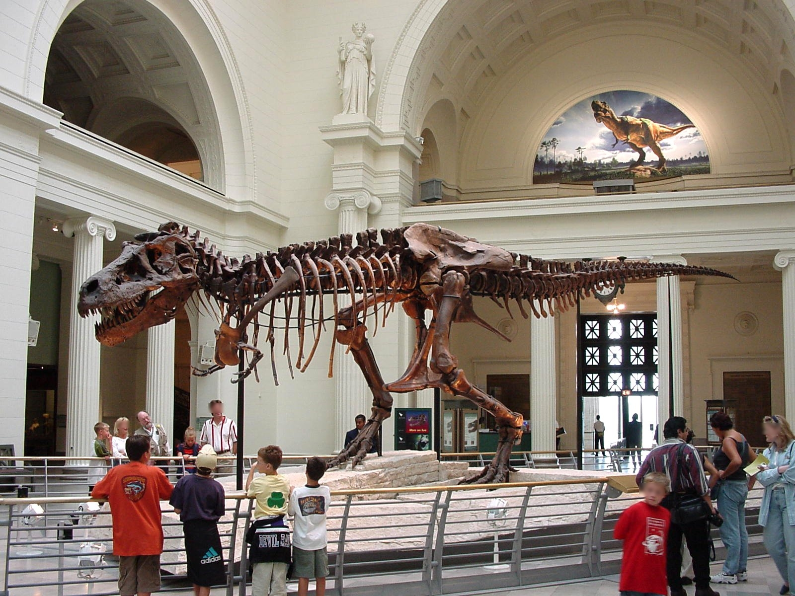 “Sue”, a mounted Tyrannosaurus skeleton at the Field Museum of Natural History in Chicago